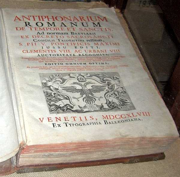 Antiphonary; Church of St. Francis, Evora, Portugal